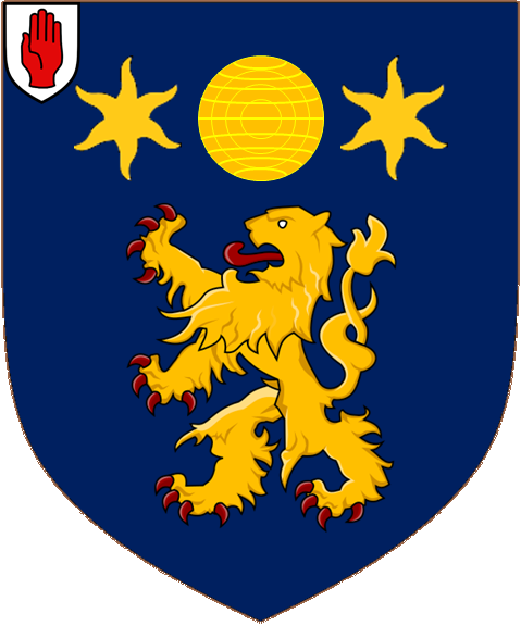 Shield of arms of the Dryden baronets of Canons Ashby